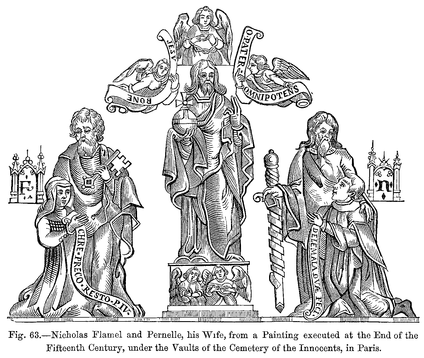 Nicholas Flamel and Pernelle, his Wife, from a Painting executed at the End of the Fifteenth Century, under the Vaults of the Cemetery of the Innocents, in Paris.